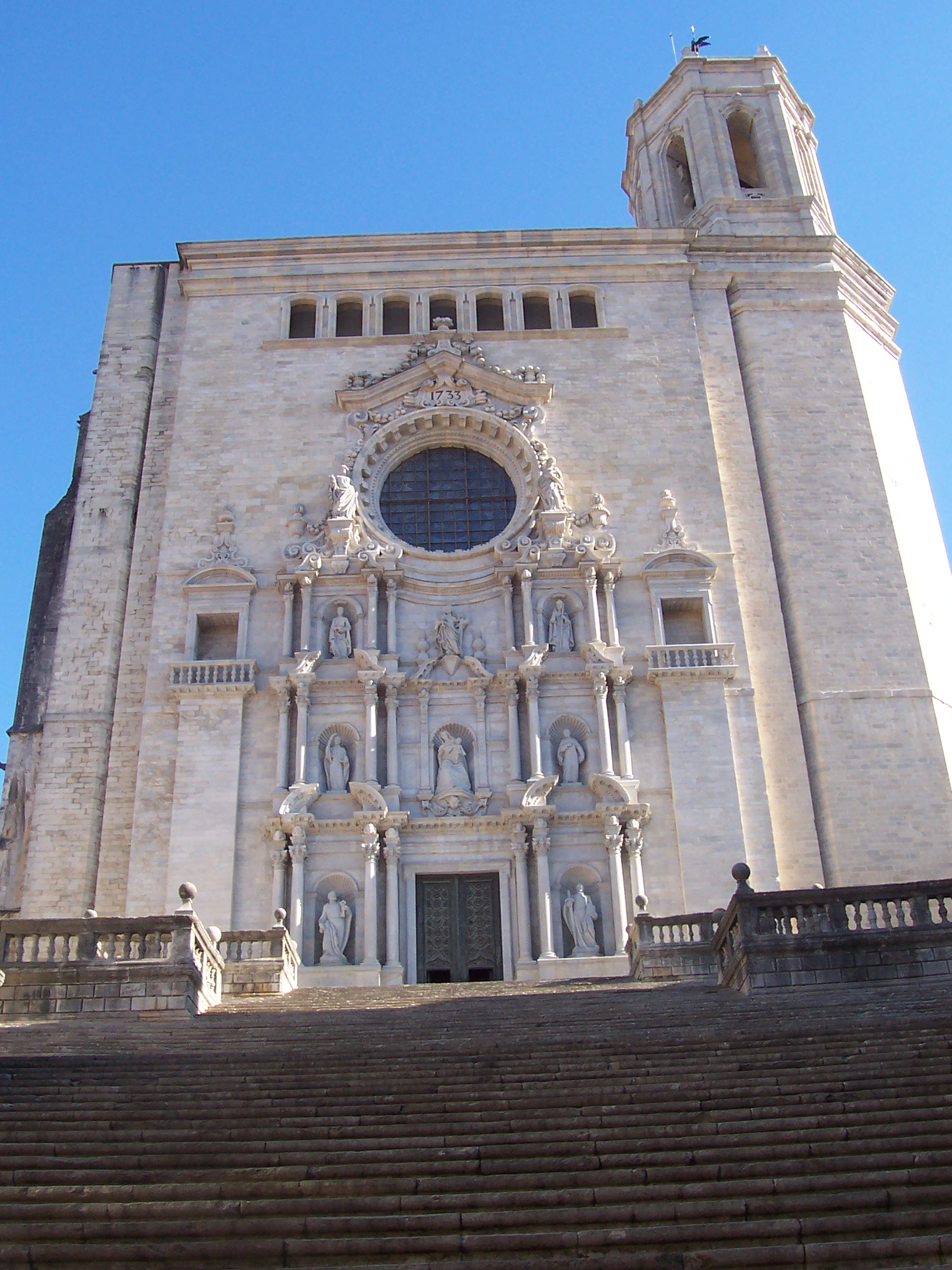 Cathedral of Girona (Catalonia, Spain).